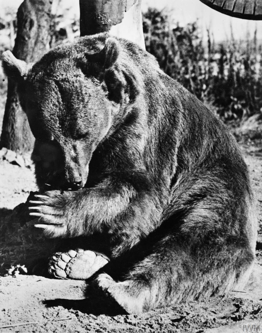 Wojtek (Voytek) the Syrian bear adopted by the 22 Artillery Support Company (Army Service Corps, 2nd Polish Corps) relaxing at Winfield Aerodrome on Sunwick Farm, near Hutton in Berwickshire, the unit's temporary home after the war.